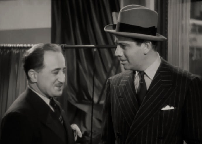 Rolfe Sedan (left) & Melvyn Douglas in That Uncertain Feeling - cropped screenshot